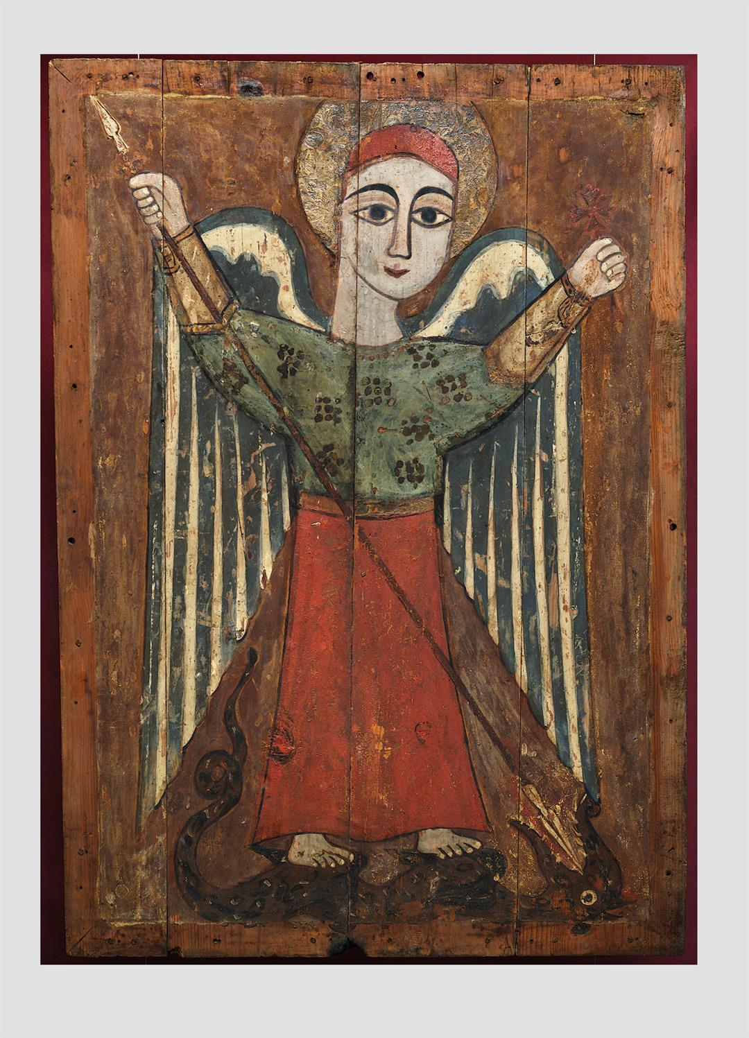 Archangel Michael Icon with a representation of Archangel Michael, a typical example of Coptic art of the 17th c. It was donated by Antonis Benakis together with other Coptic art works to the Byzantine and Christian Museum. Creator: Coptic art Measurement: 84 x 59 cm Exhibit Number: ΒΧΜ 01803